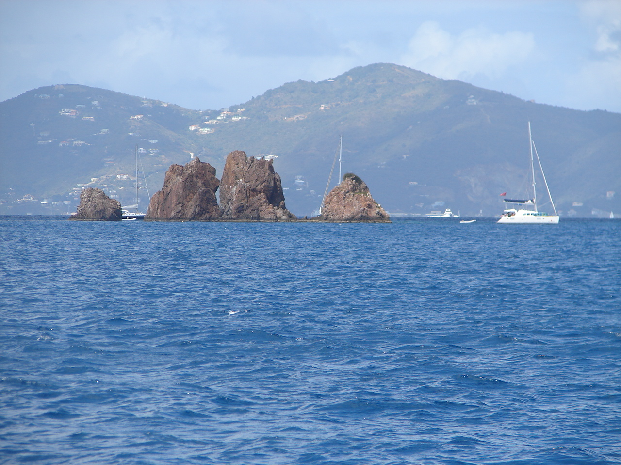 Photograph of The Indians, British Virgin Islands